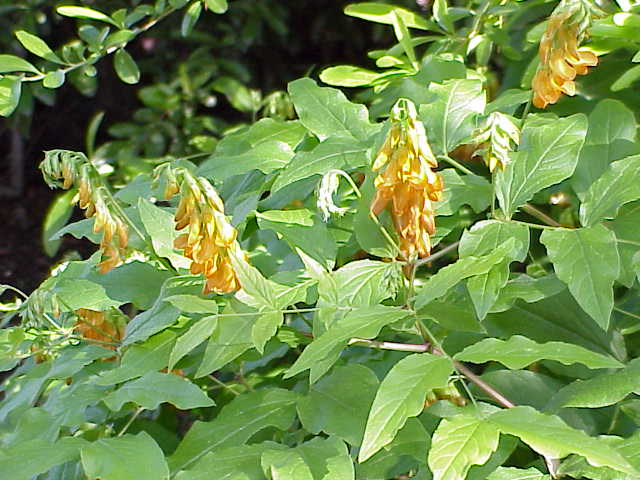 Species: Lathyrus aureus Family: Fabaceae Image No. 2